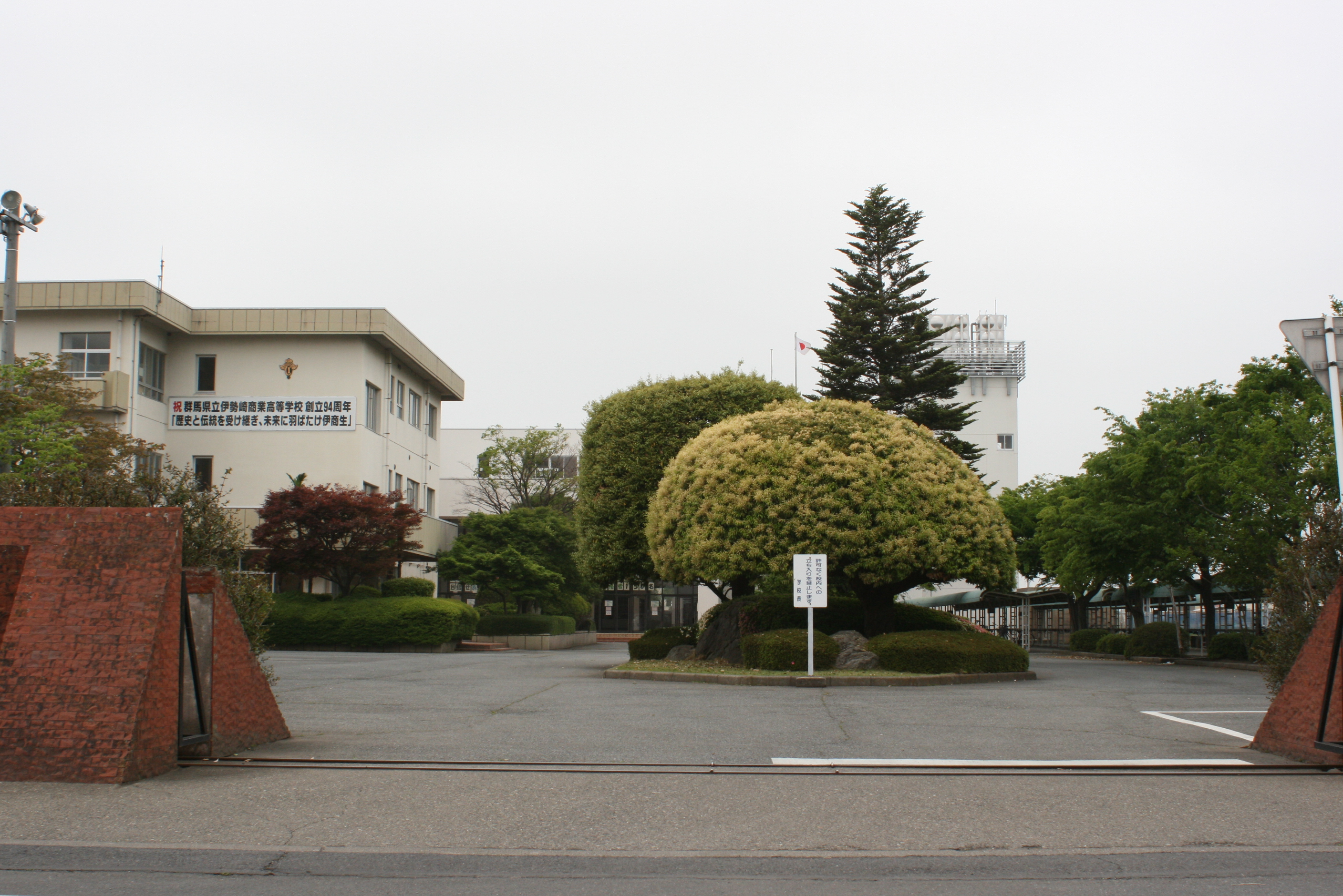 Gunma prefectural Isesaki Commercial high school